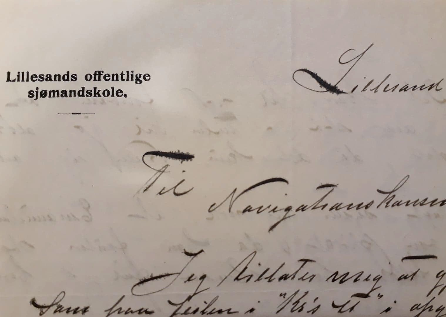 Handwritten document from Lillesand offentlige sjømannskole. 11918